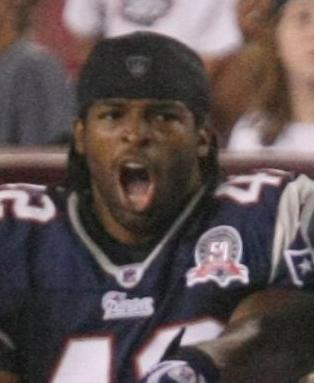 New England Patriots at Washington Redskins 08/28/09